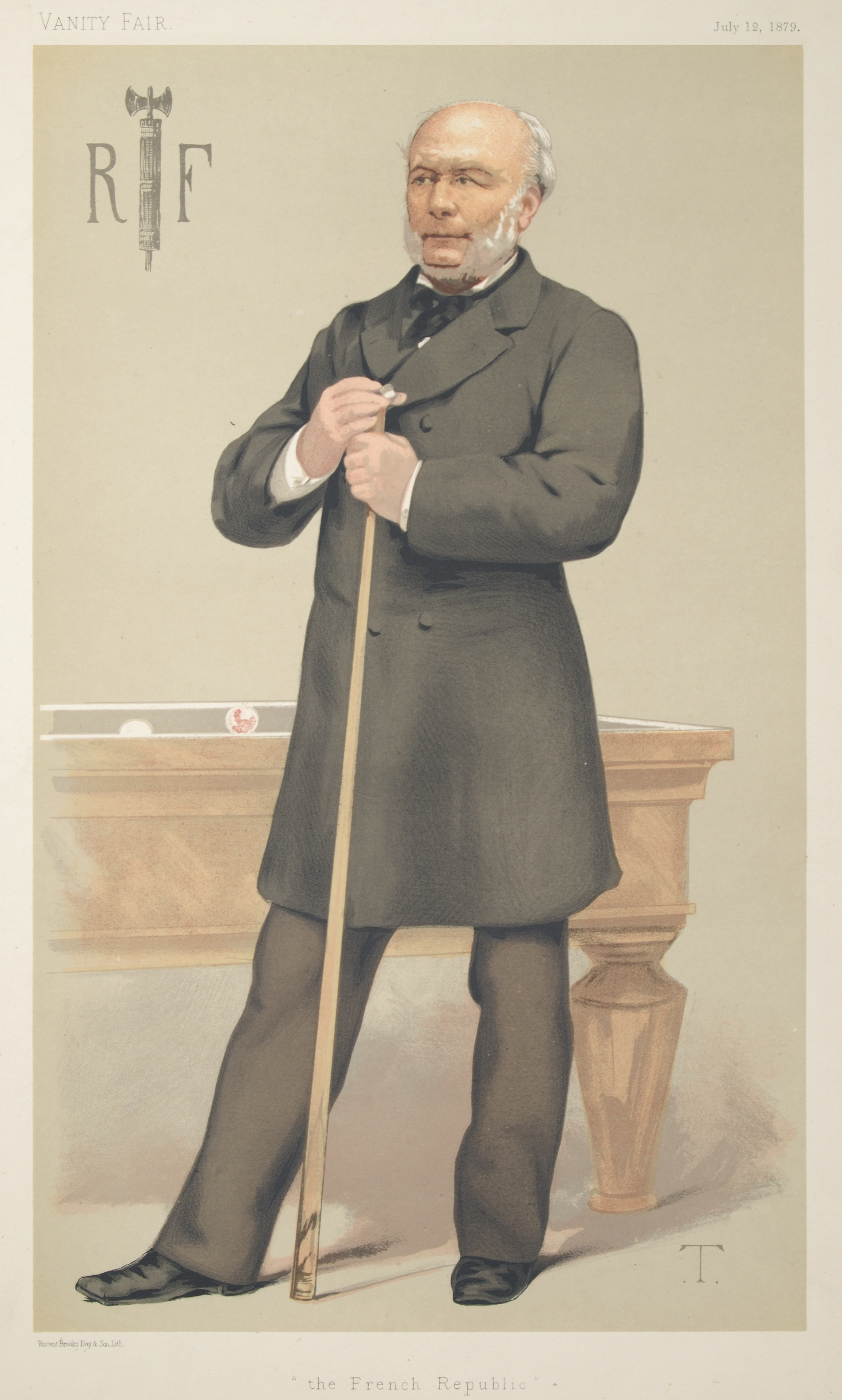 Statesmen No.309: Caricature of M Jules Grévy. Caption reads: "the French Republic"